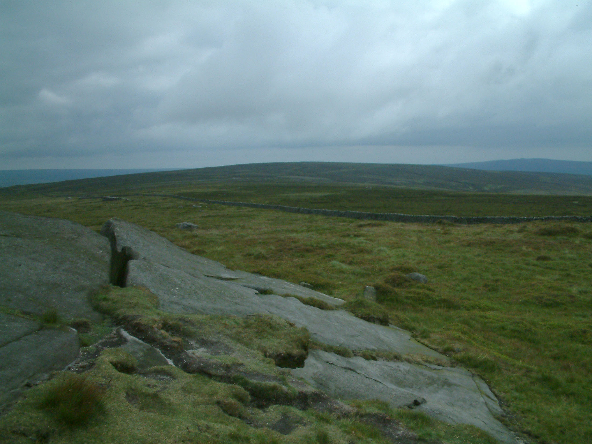 Thorpe Fell Top from next to the war memorial at the top of Cracoe Fell. Photograph by Stephen Dawson, 22 July 2005.